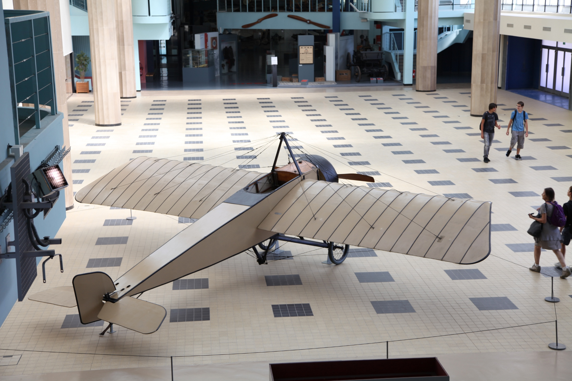 Morane-Saulnier Type G - Museum of Air and Space - Le Bourget - France